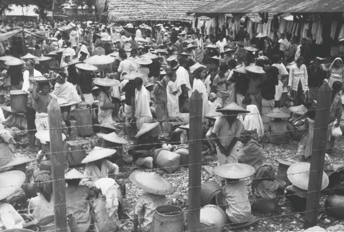 The market at Kalosi